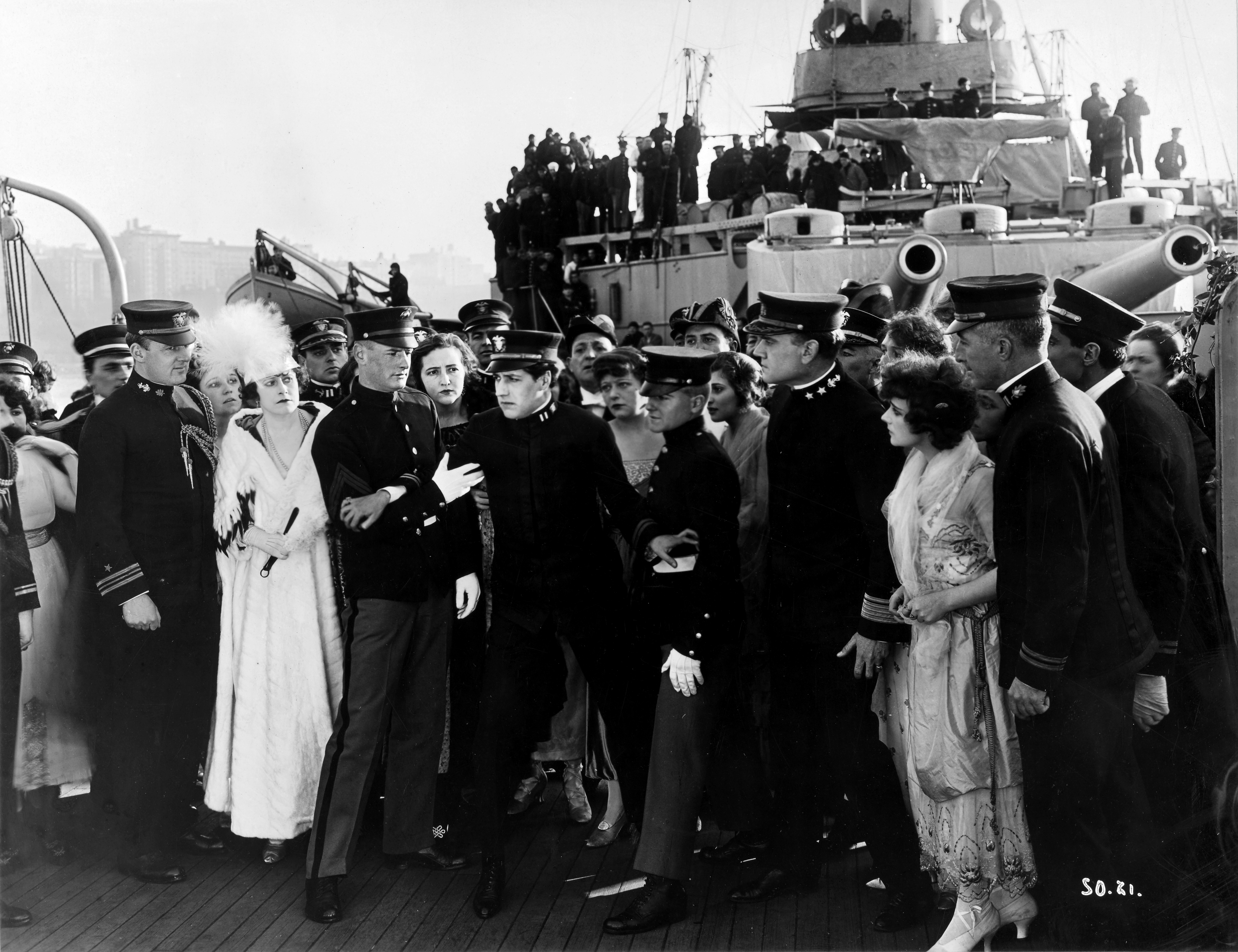 Promotional still from the 1918 film Stolen Orders